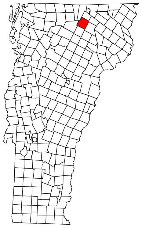 Description: Map of Vermont towns with Irasburg highlighted Source: Map created by Jared C. Benedict on 26 March 2004. Copyright: © Jared C. Benedict.